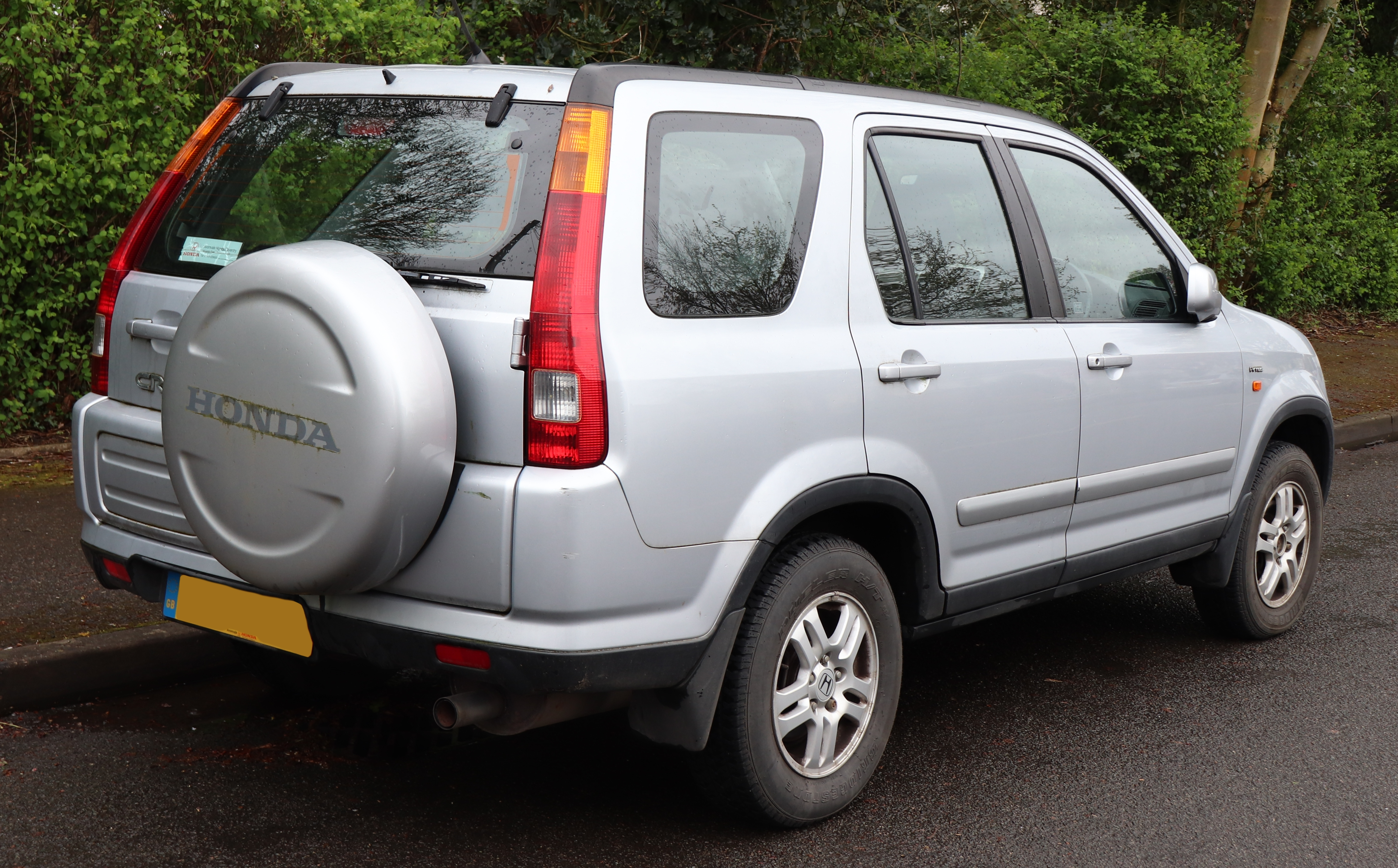 2002 Honda CR-V i-VTEC SE Sport 2.0 Taken in Leamington Spa